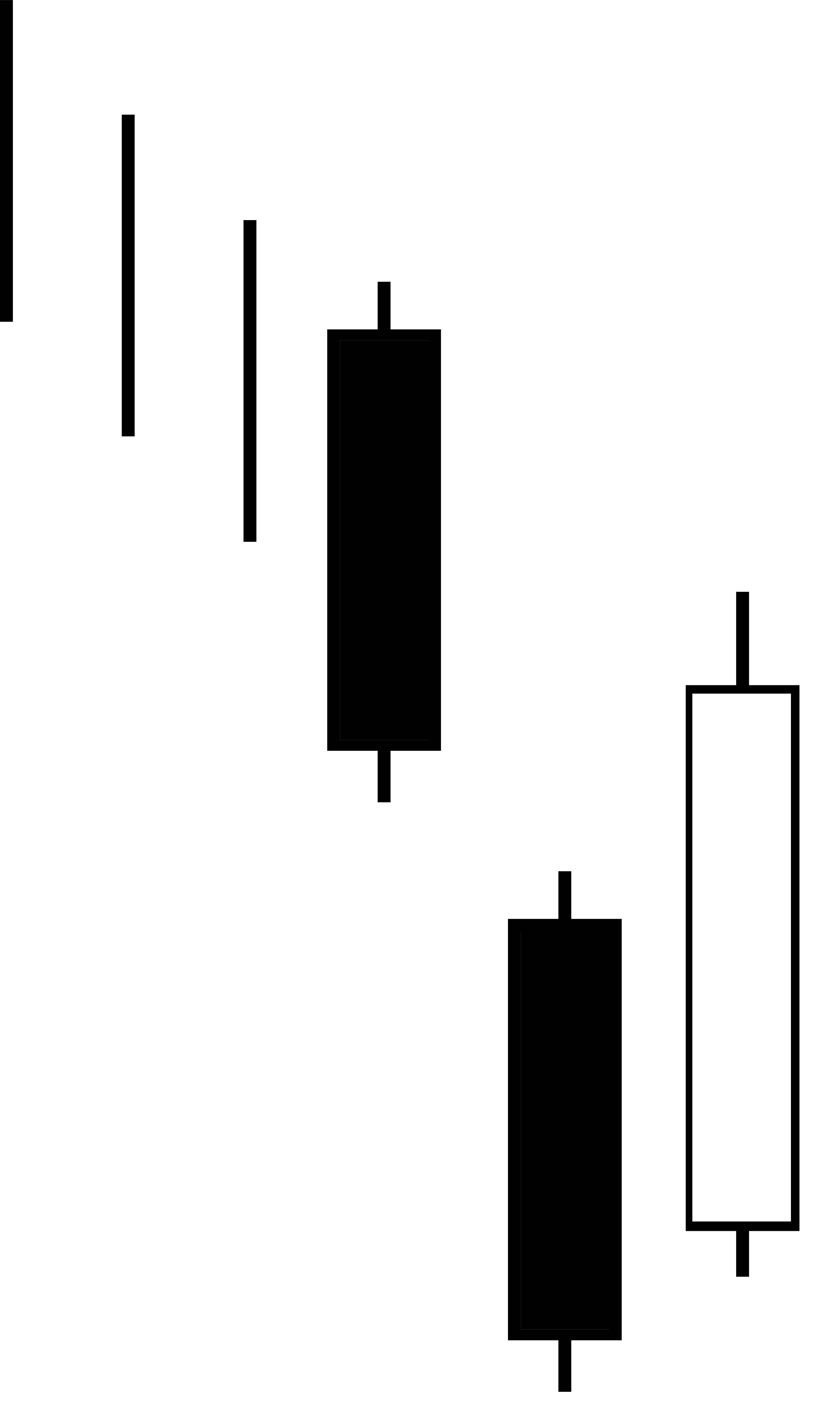 Bearish Downside Gap Three Methods